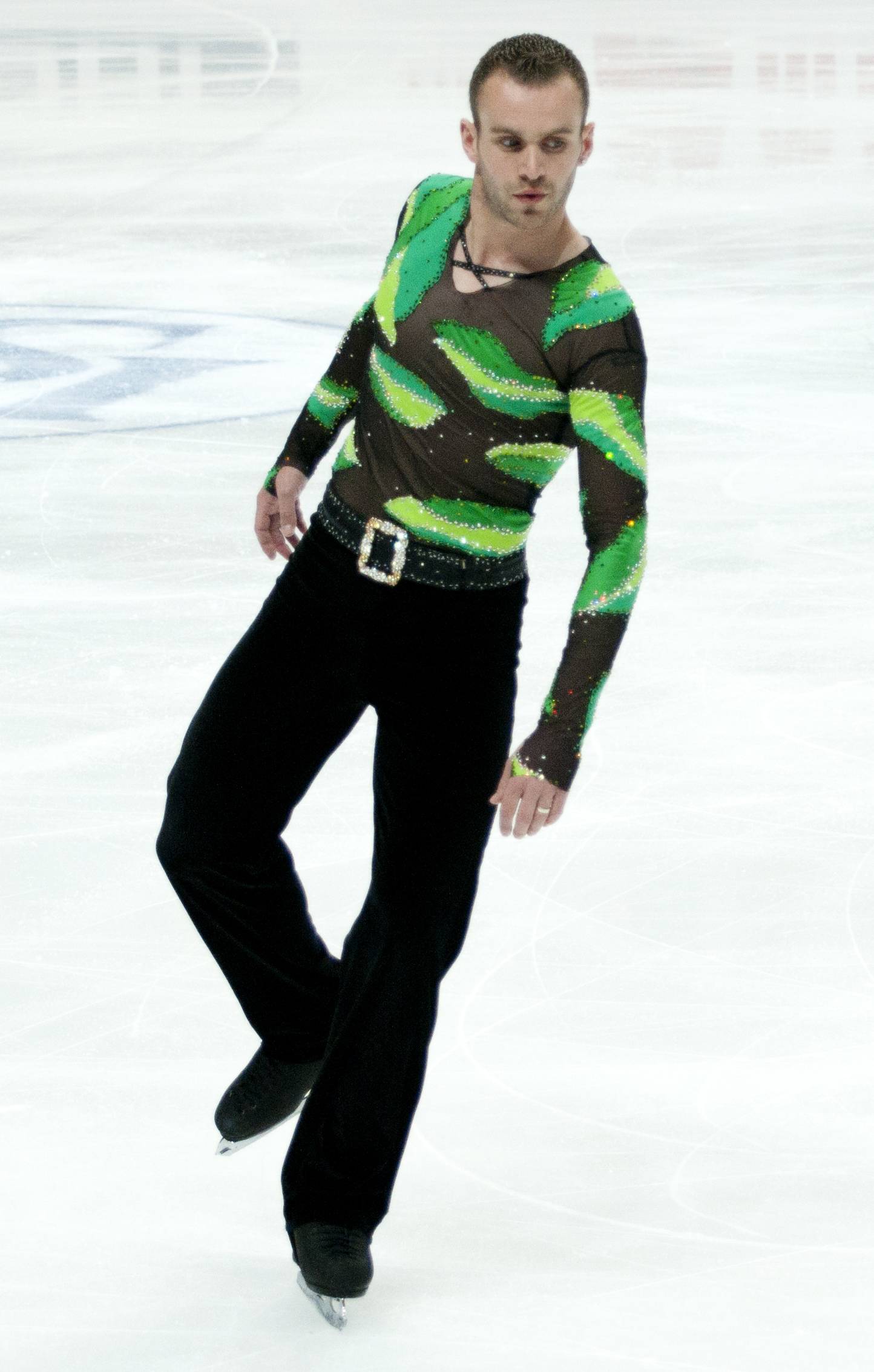 2011 World Figure Skating Championships, free skating.